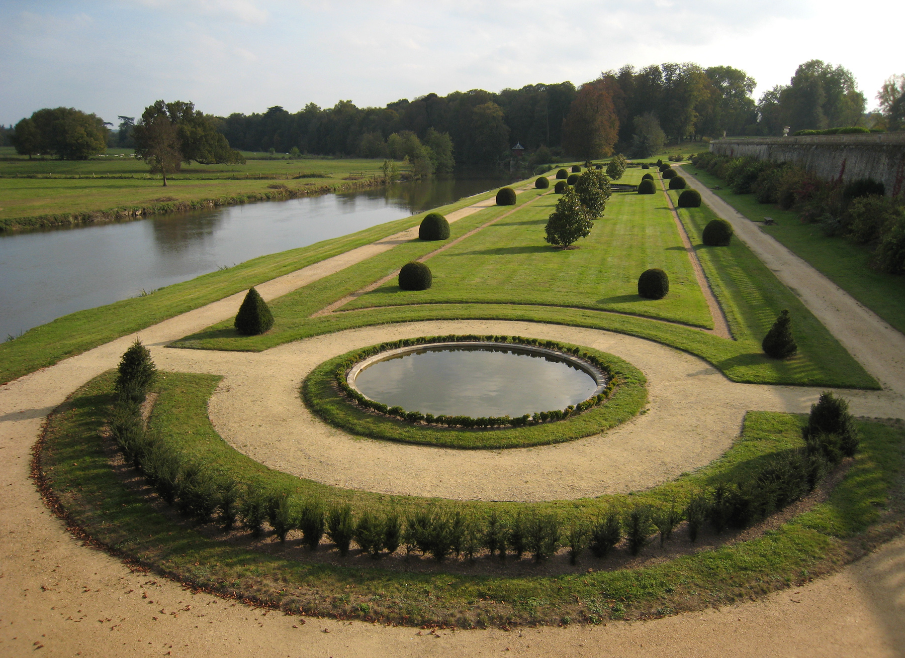 Castle Le Lude, located on the river Loir (not Loire) in the county of Sarthe/France